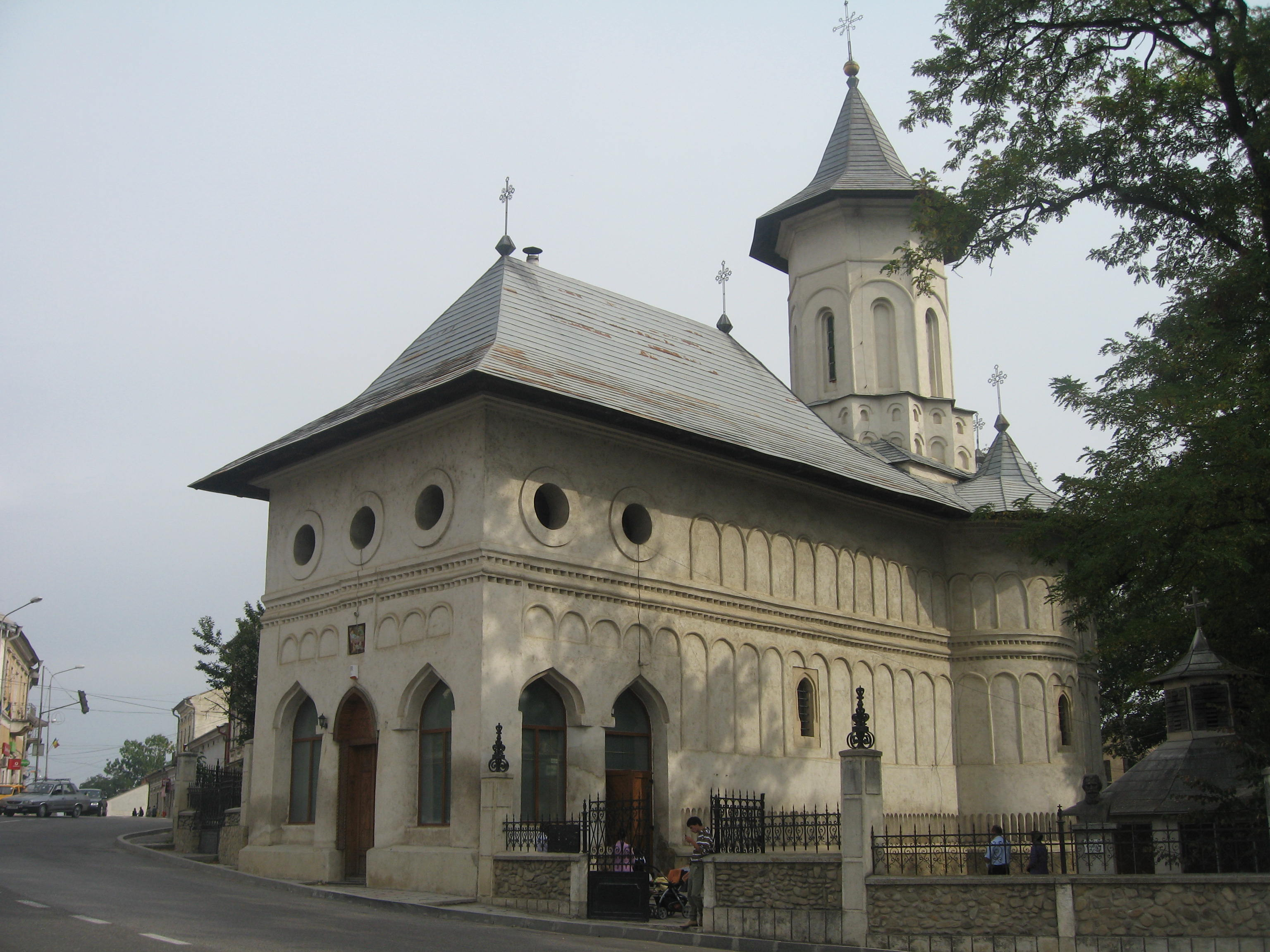 Biserica Naşterea Sfântului Ioan Botezătorul din Siret